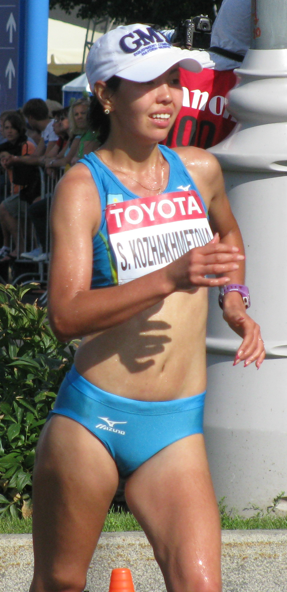 Sholpan Kozhakhmetova in action during Women's 20 kilometres walk at the 2013 World Championships in Athletics